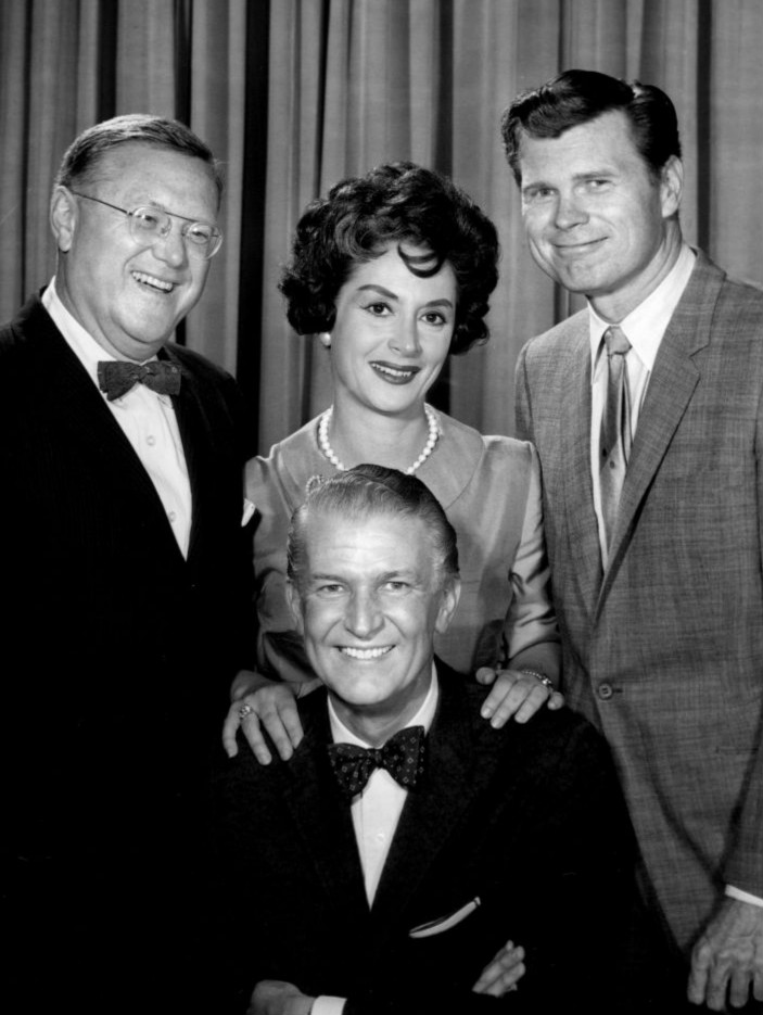 Publicity photo for the daytime version of the television game show To Tell the Truth. The daytime show initially had different panel members than the nighttime program. Seated is host Bud Collyer; standing from left: Sam Levenson, Mimi Benzell, Barry Nelson. Sally Ann Howes was the fourth panel member and is not pictured.